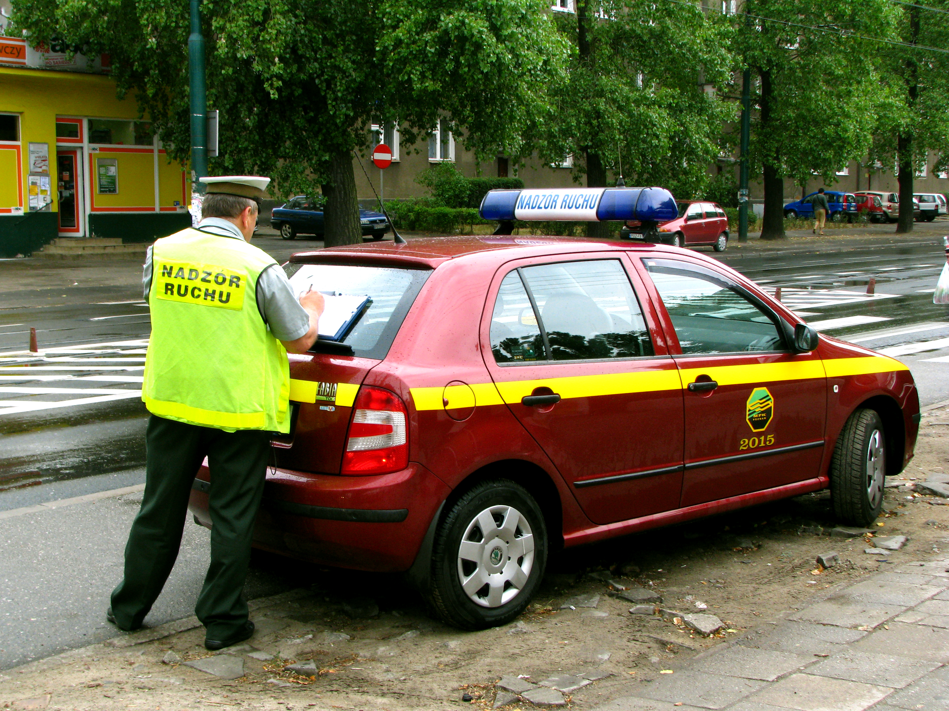 Car of oversight of traffic of communication enterprise